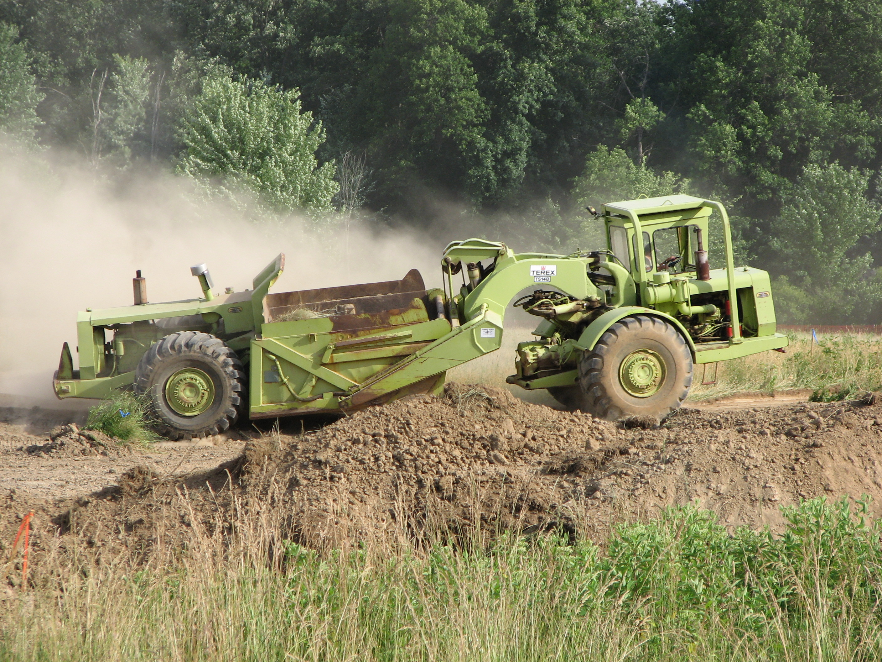 A Terex TS-14b scraper at work in Hudson, Ohio